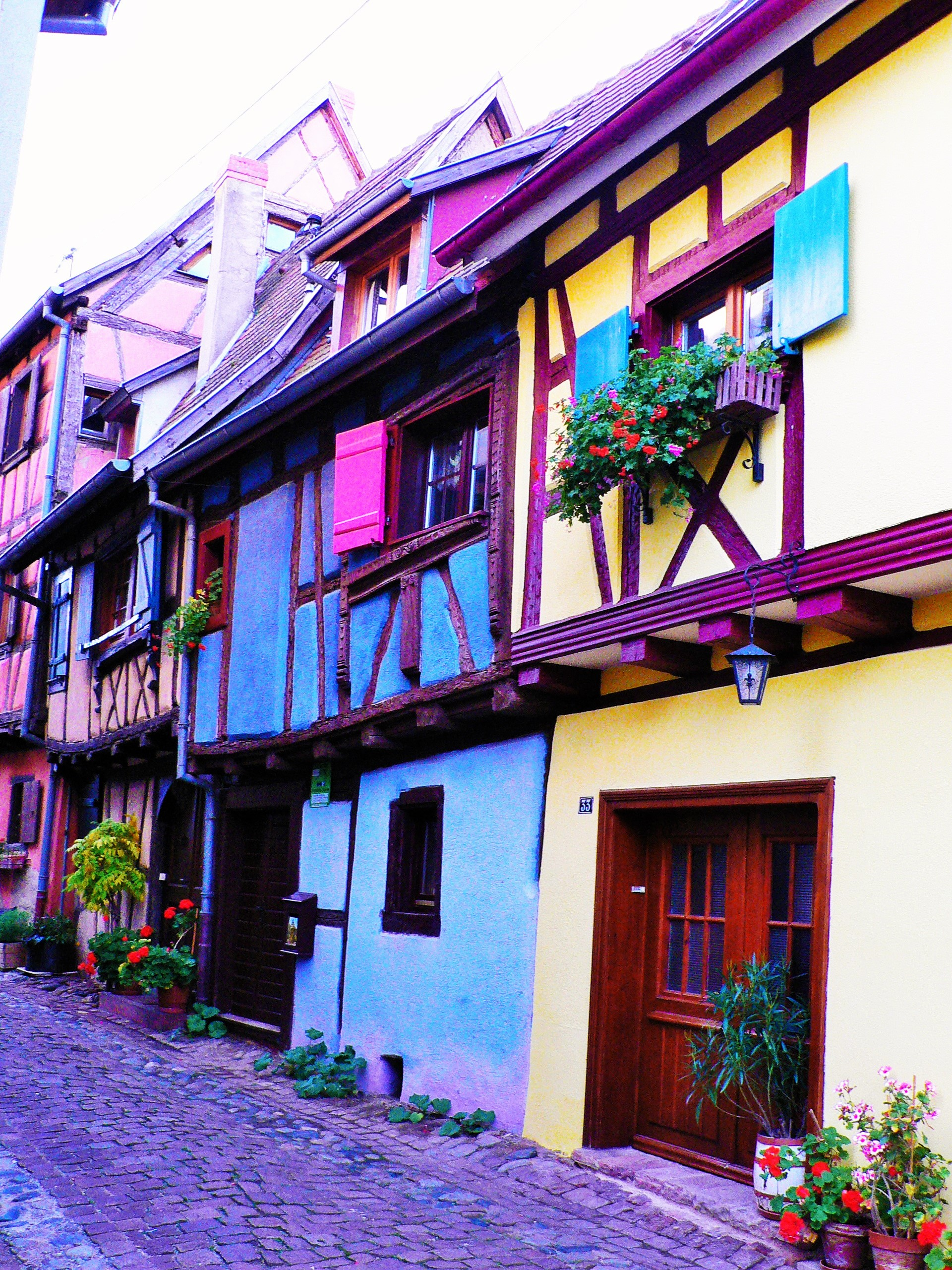 Typical street in Eguisheim, Alsace, France